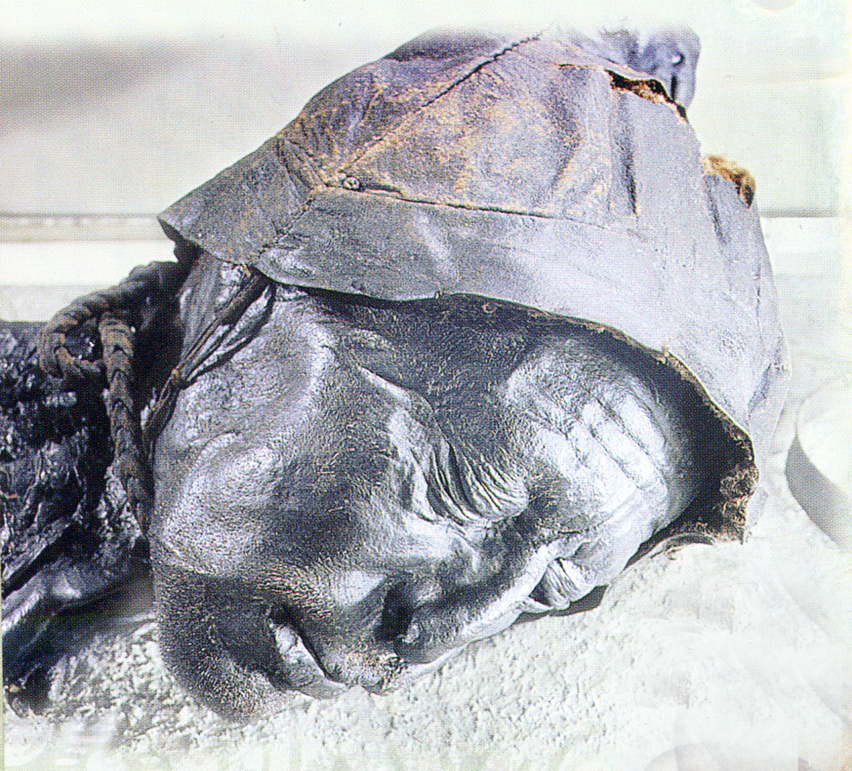 Head of bog body Tollund Man. Found on 1950-05-06 near Tollund, Silkebjorg, Denmark and C14 dated to approximately 375-210 BCE.